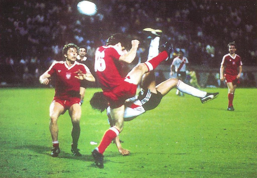 Memorable goal by Enzo Francescoli, player of River Plate, against the national team of Poland in a friendly match played on 1986 in Mar del Plata, Argentina.